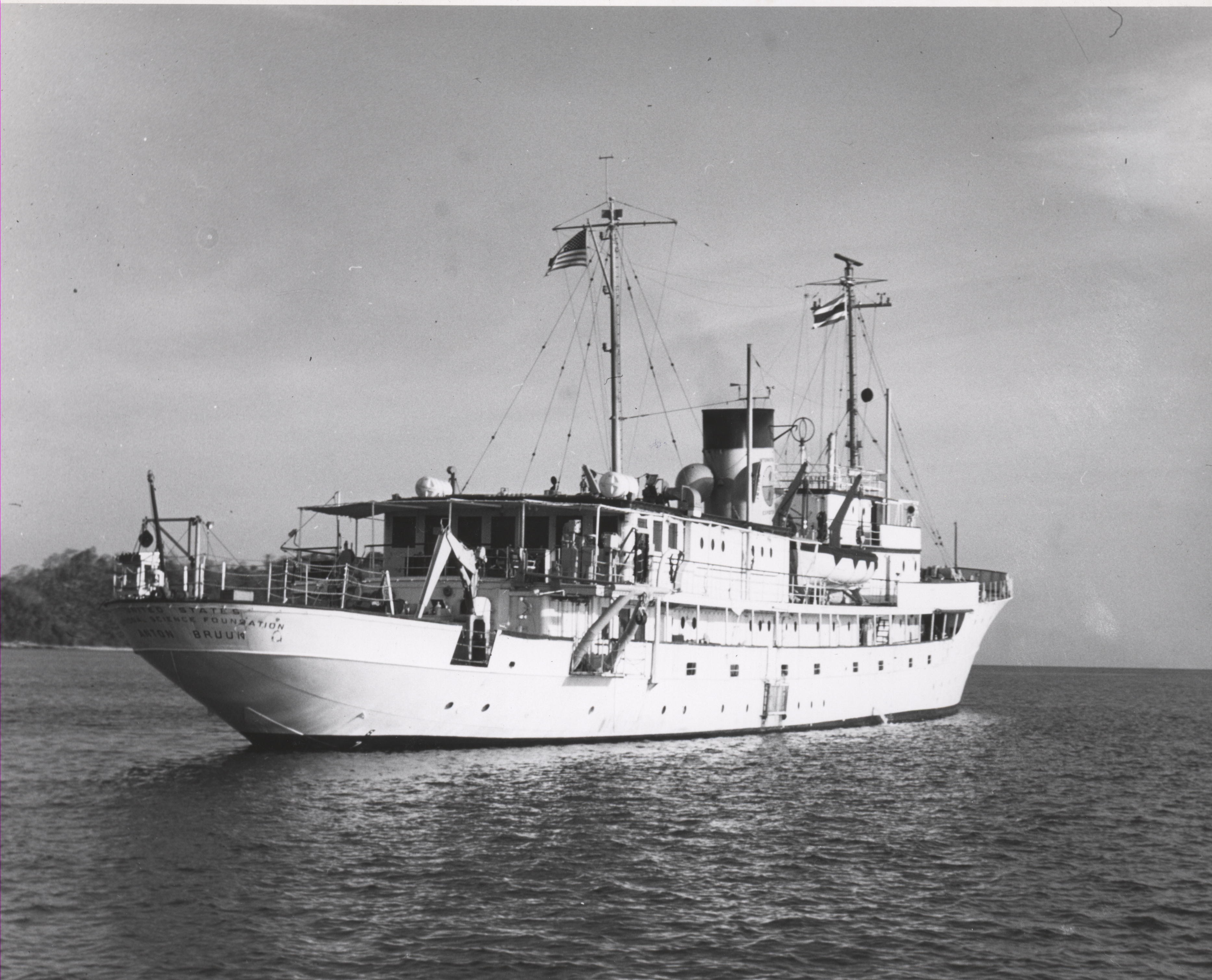 U.S. National Research Foundation Research Vessel ANTON BRUUN at anchor off Phuket, Thailand. BCF scientists conducted fisheries surveys from this vessel while participating in the International Indian Ocean Expedition. Image ID: fizh0063, NOAA's Historic Fisheries Collection